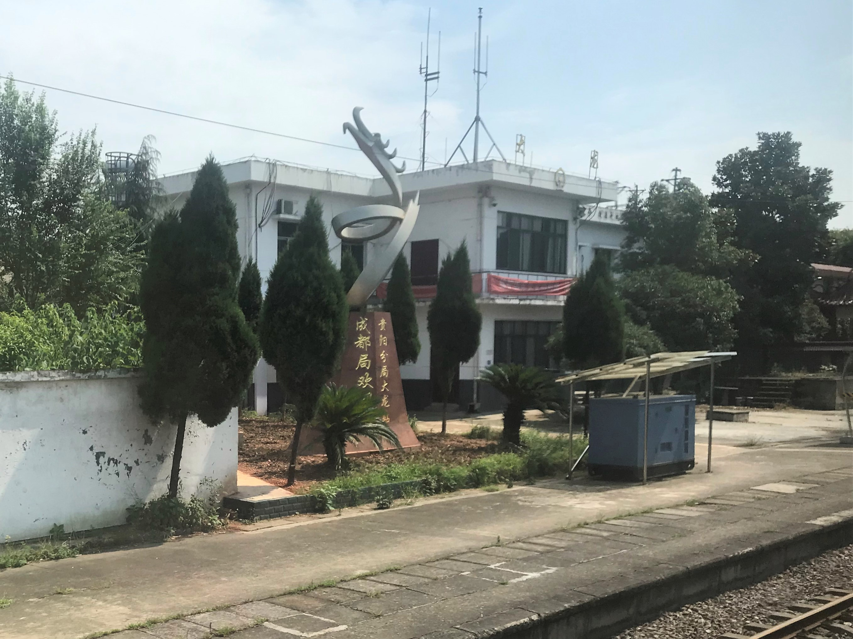 Entering CR Chengdu...luckily there is no issue about photograph throughout the journey